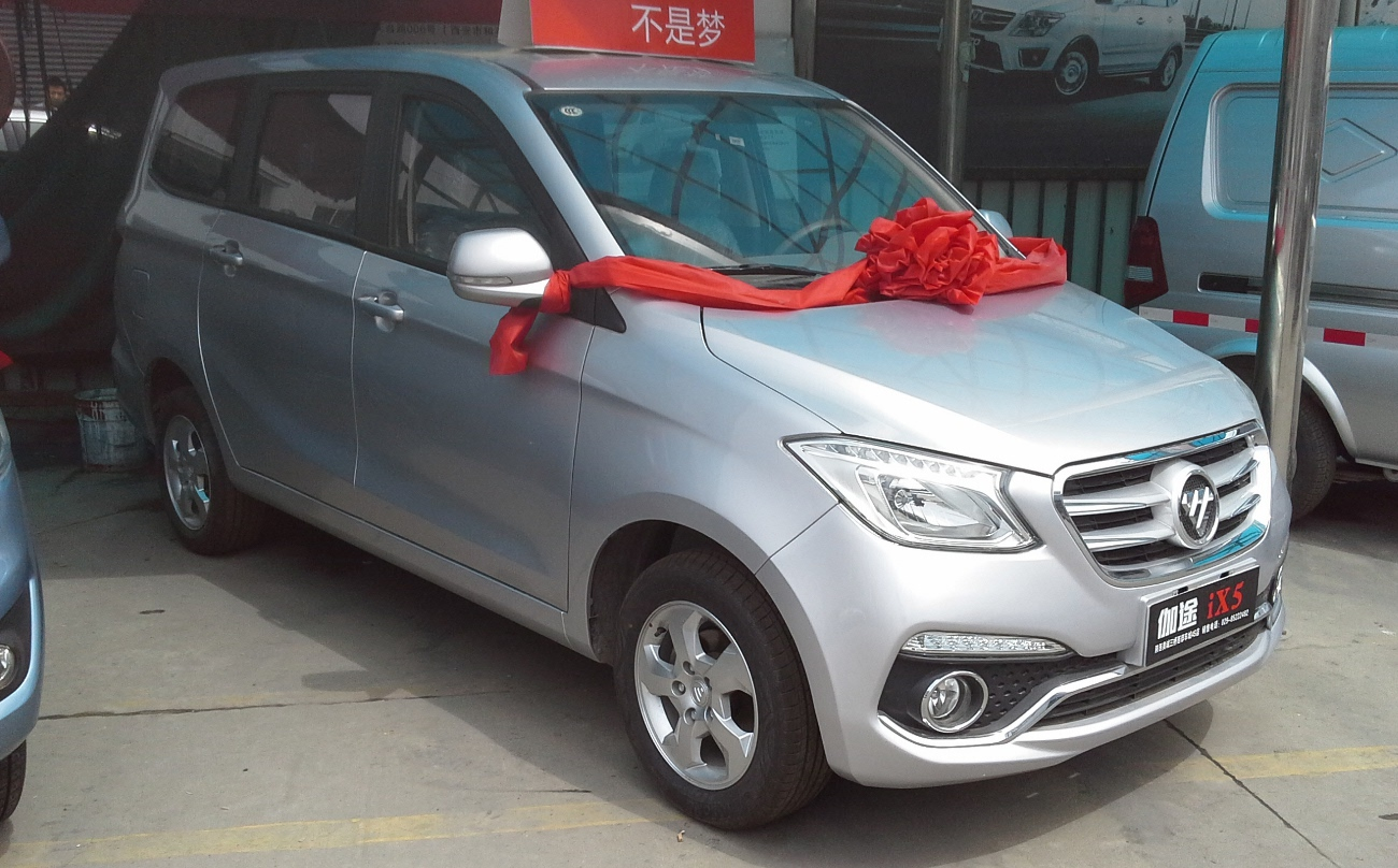 Foton Gratour iX5 photographed in Xi'an, Shaanxi province, China.